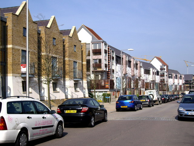 The Chase The new housing estate being built between Old Harlow and Church Langley.